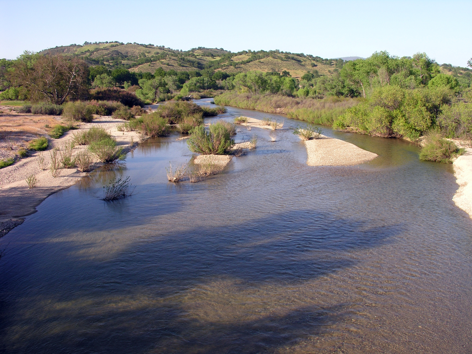 The San Antonio River — a major tributary of the Salinas River. Located in southern Monterey County, California. This section of the river is upstream of Lake San Antonio in the Santa Lucia Mountains. It was taken by me on May 8, 2006. I give permission for the picture to be used with attribution under the GFDL and Creative Commons.